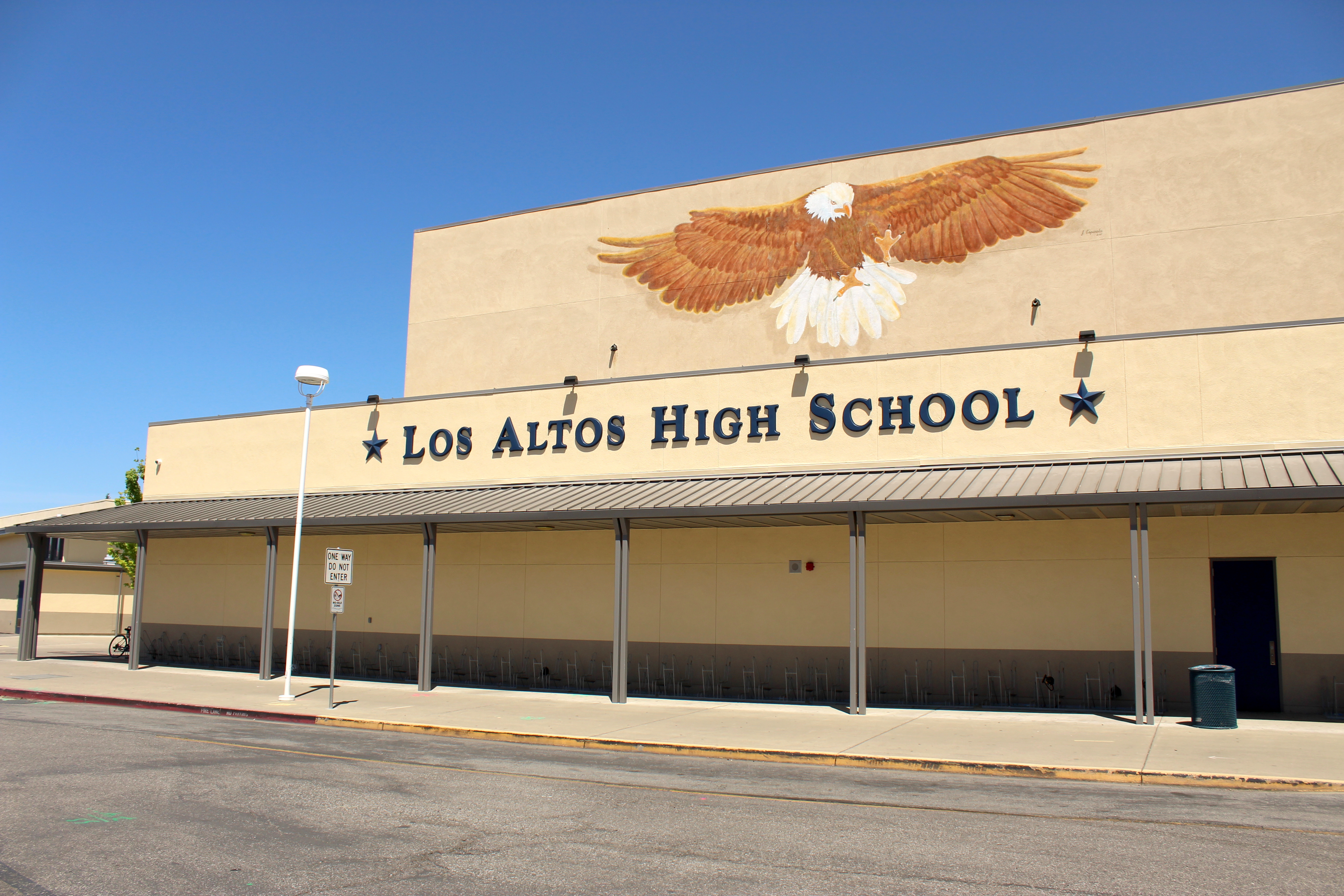 Los Altos High School large sign